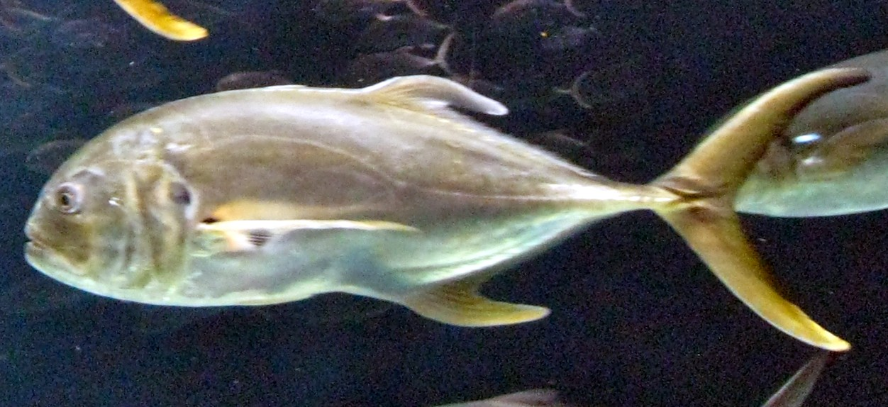 Flickr tool template follows: Description At the entrance to the aquarium. New Jack Fishy... they swim, a lot.Date 19 September 2009, 06:20 (UTC)Source Crevalle_jack_aquarium.jpgAuthor Crevalle_jack_aquarium.jpg: Kevin Lawver from Sterling, US derivative work: Kare Kare (talk) This is a retouched picture, which means that it has been digitally altered from its original version. Modifications: Crop out a single fish, rotate and touch up for use in article taxobox. The original can be viewed here: Crevalle jack aquarium.jpg: . Modifications made by Kare Kare.